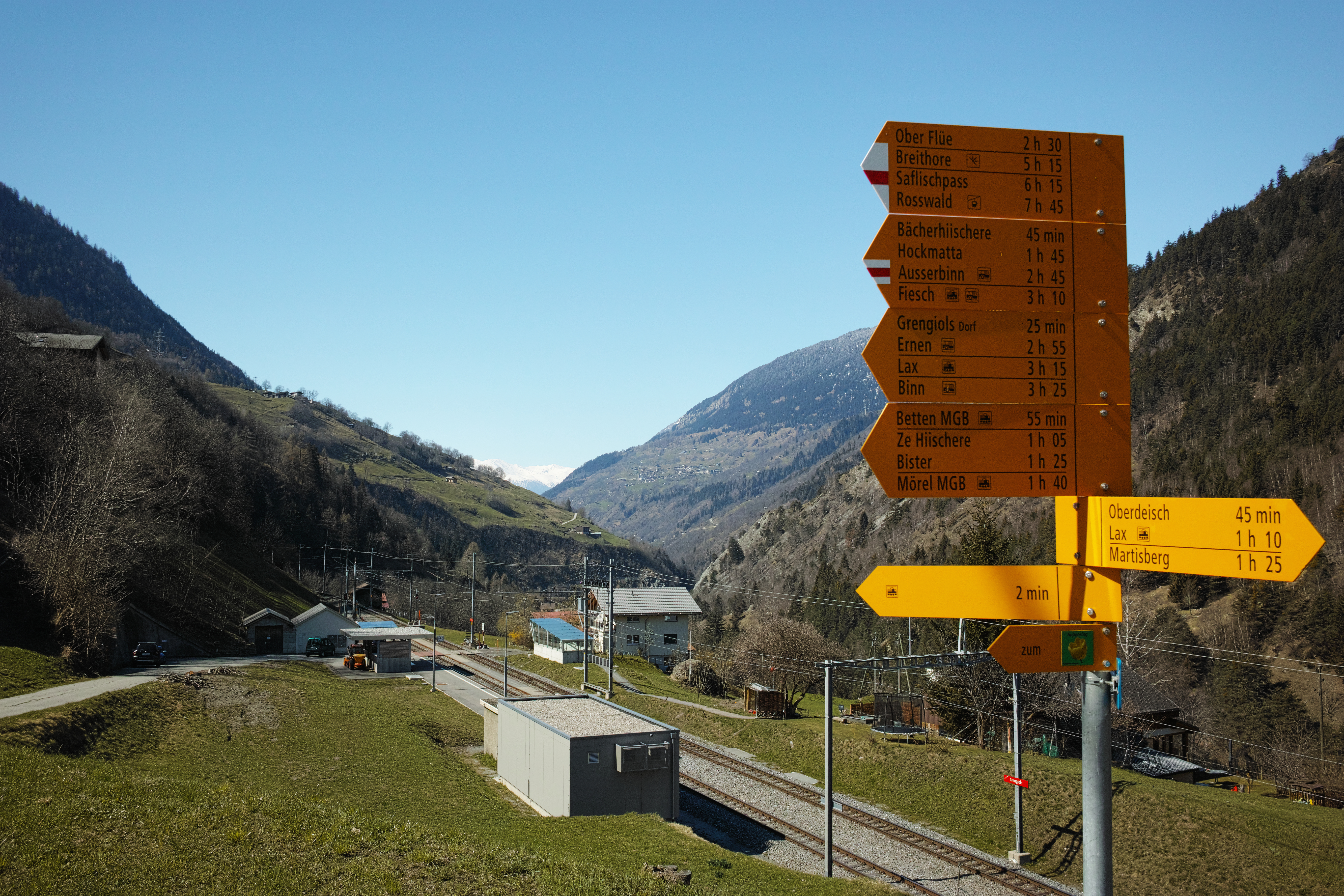 Hiking signs at Grengiols railway station, canton of Valais, Switzerland.